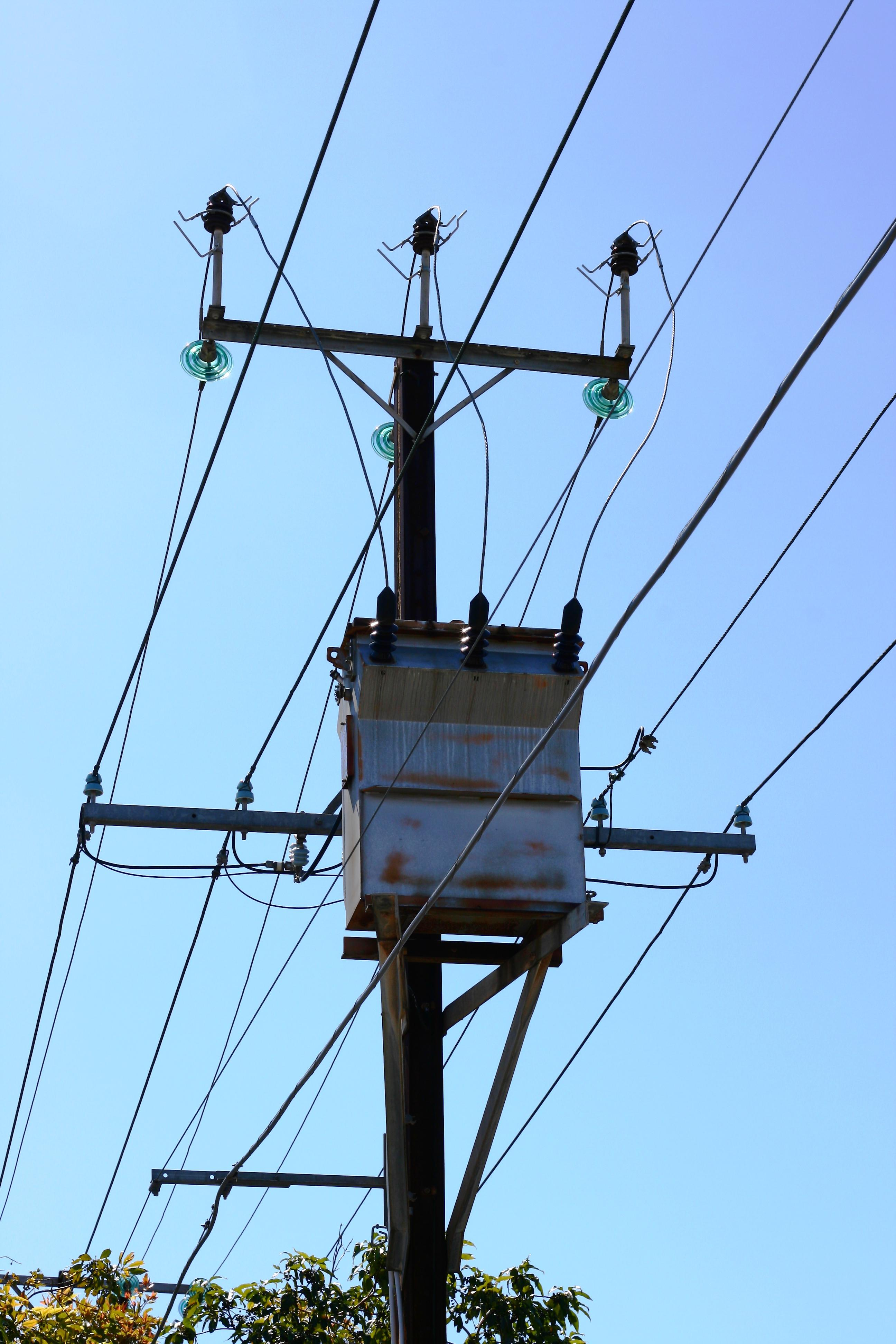 Adelaide, South Australia, Stobie pole with step-down transformer